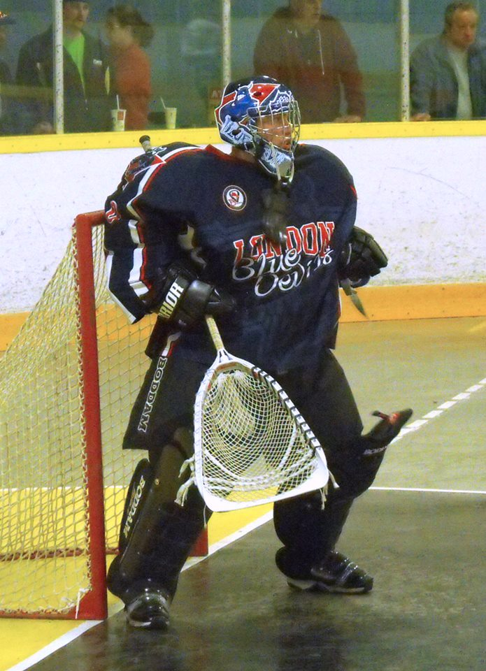 These images of Ontario Junior B Lacrosse Action action during the 2014 season are taken by Devan Mighton.